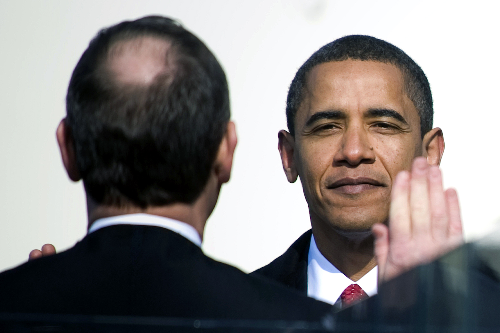 President Barack Obama takes the oath of office during the 56th Presidential Inauguration Ceremony, Washington, D.C., Jan. 20, 2009.